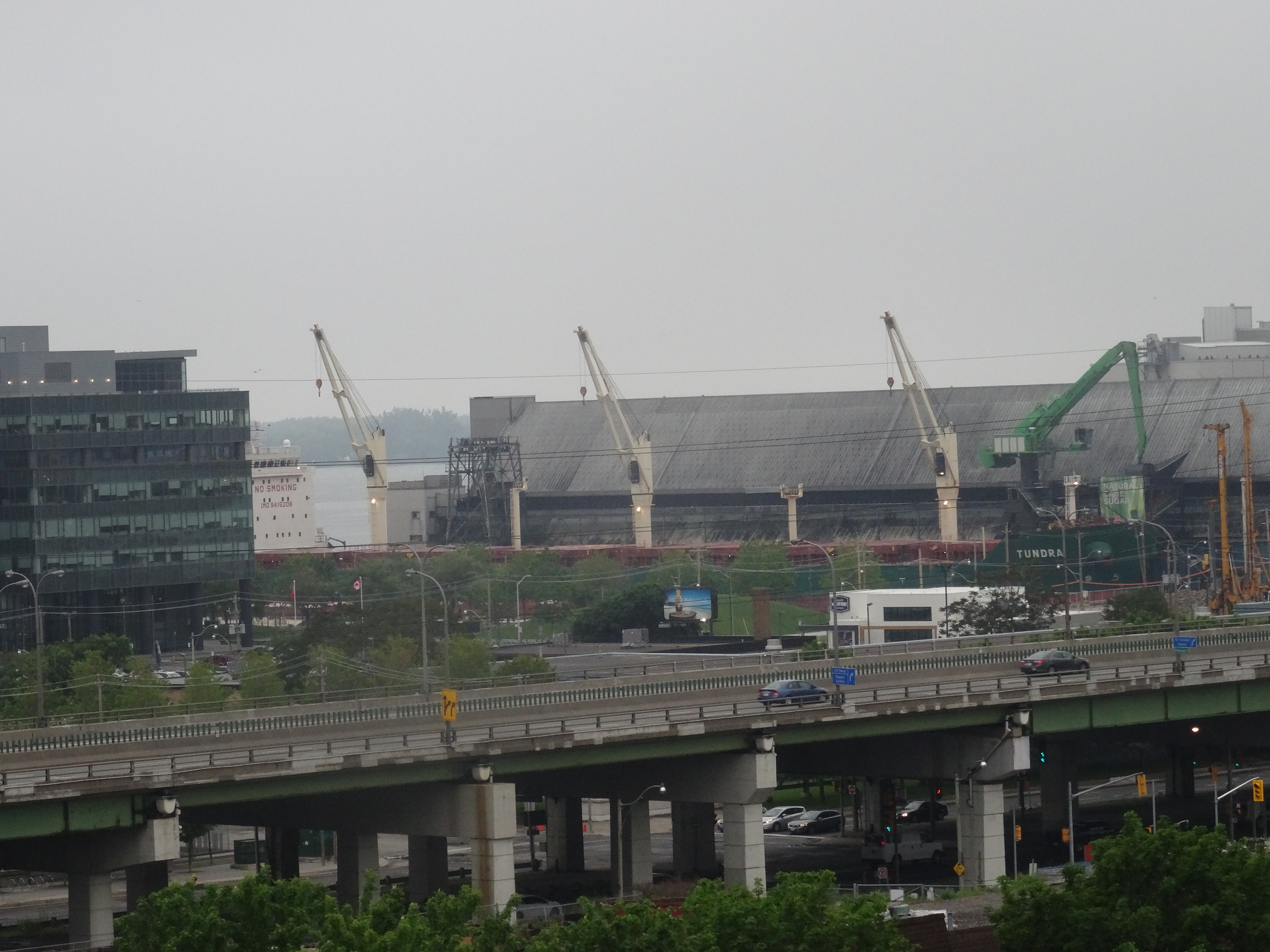 Freighter Tundra moored at the Redpath Sugar Refinery.